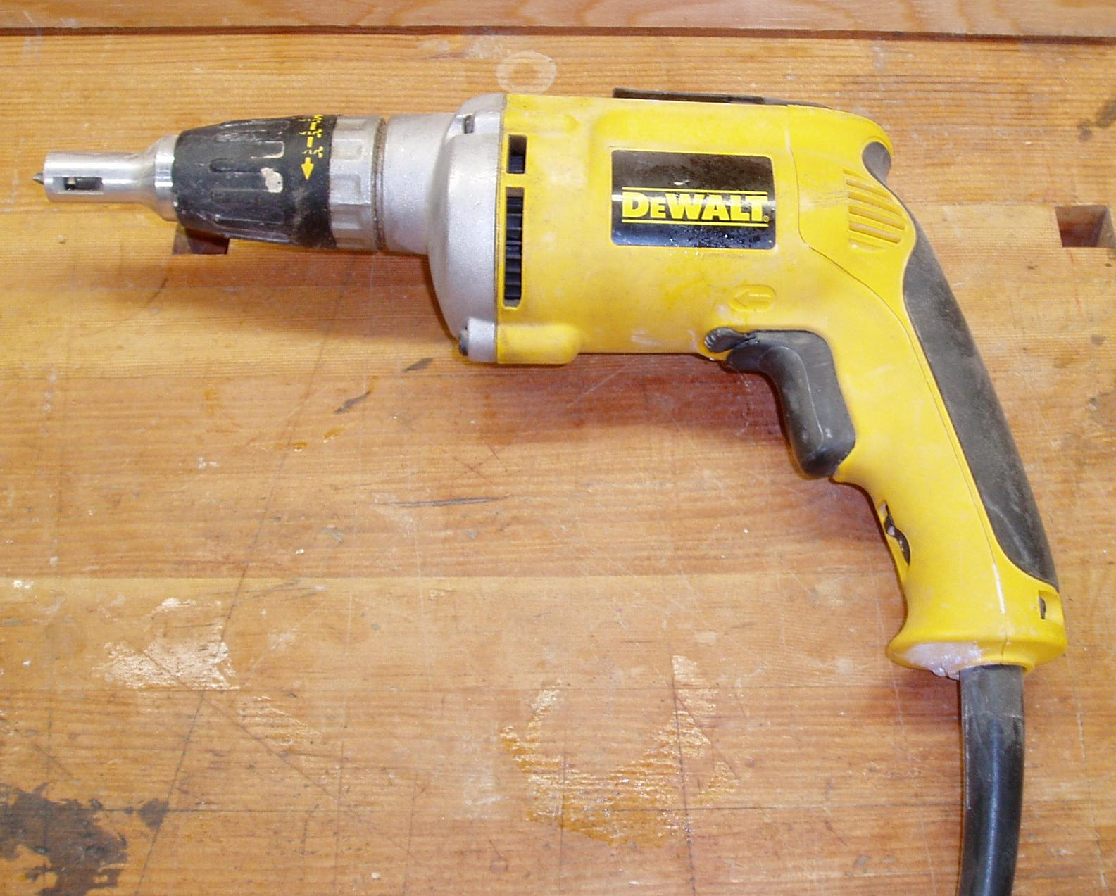 Picture of drywall screwgun (electric screwdriver) taken 18 September, 2005 by Luigi Zanasi (myself) on my workbench using a Olympus digital camera.